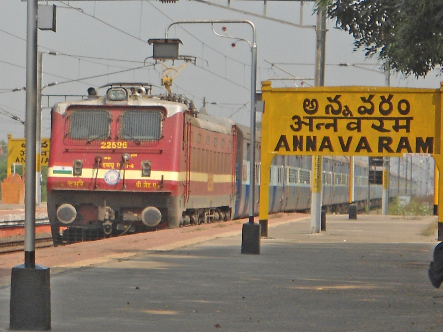 Yesvantpur bound Express from Tatanagar enters Annavaram railway station with a WAP4 Locomotive from Vijayawada shed